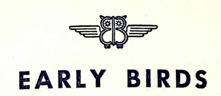 Early Birds original stationary mark